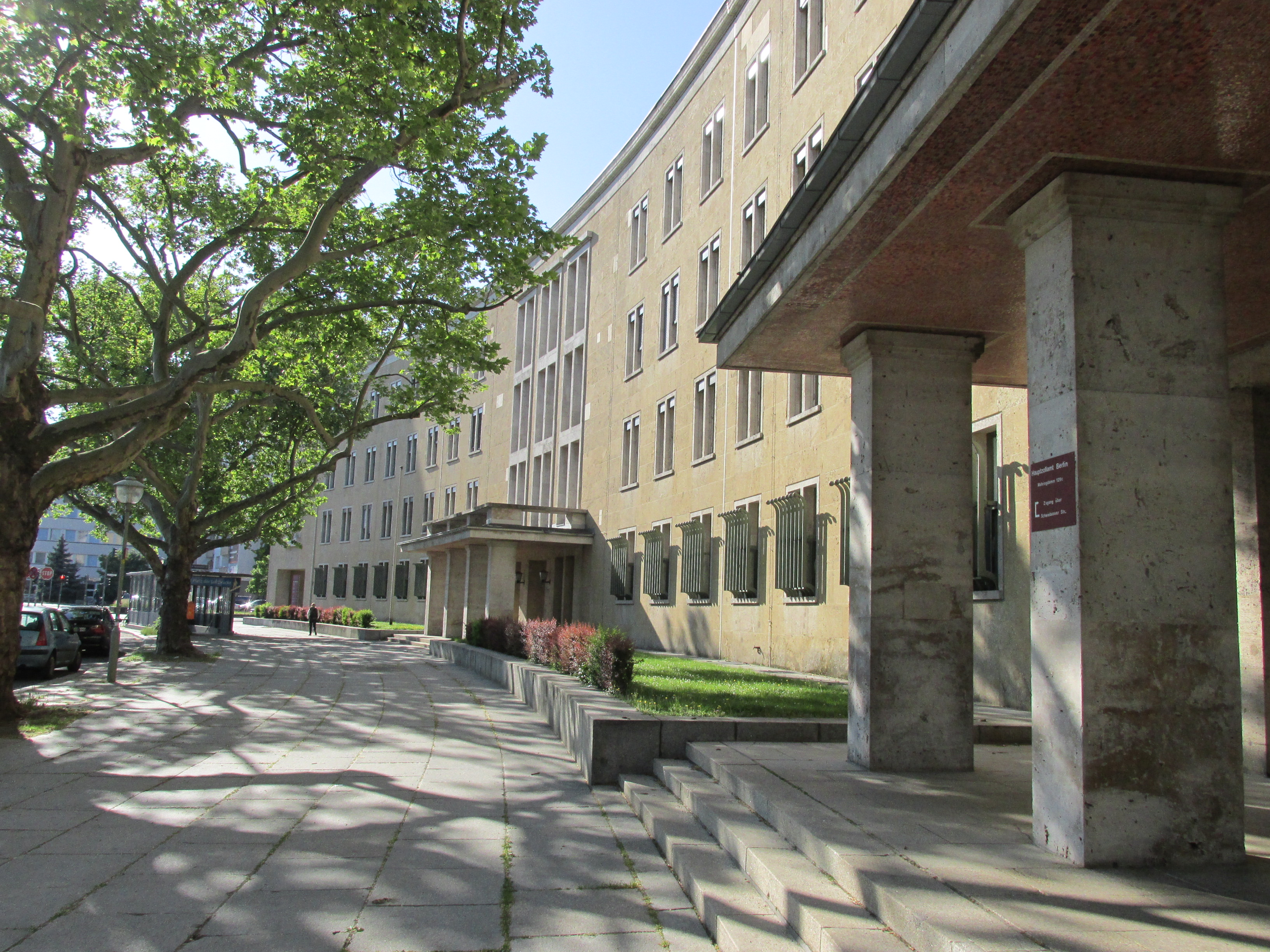 Deutscher Wetterdienst (DWD) building opposite Platz der Luftbrücke in Berlin-Tempelhof.